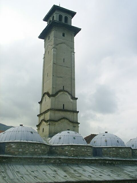 Town of Prizren in southern Kosovo